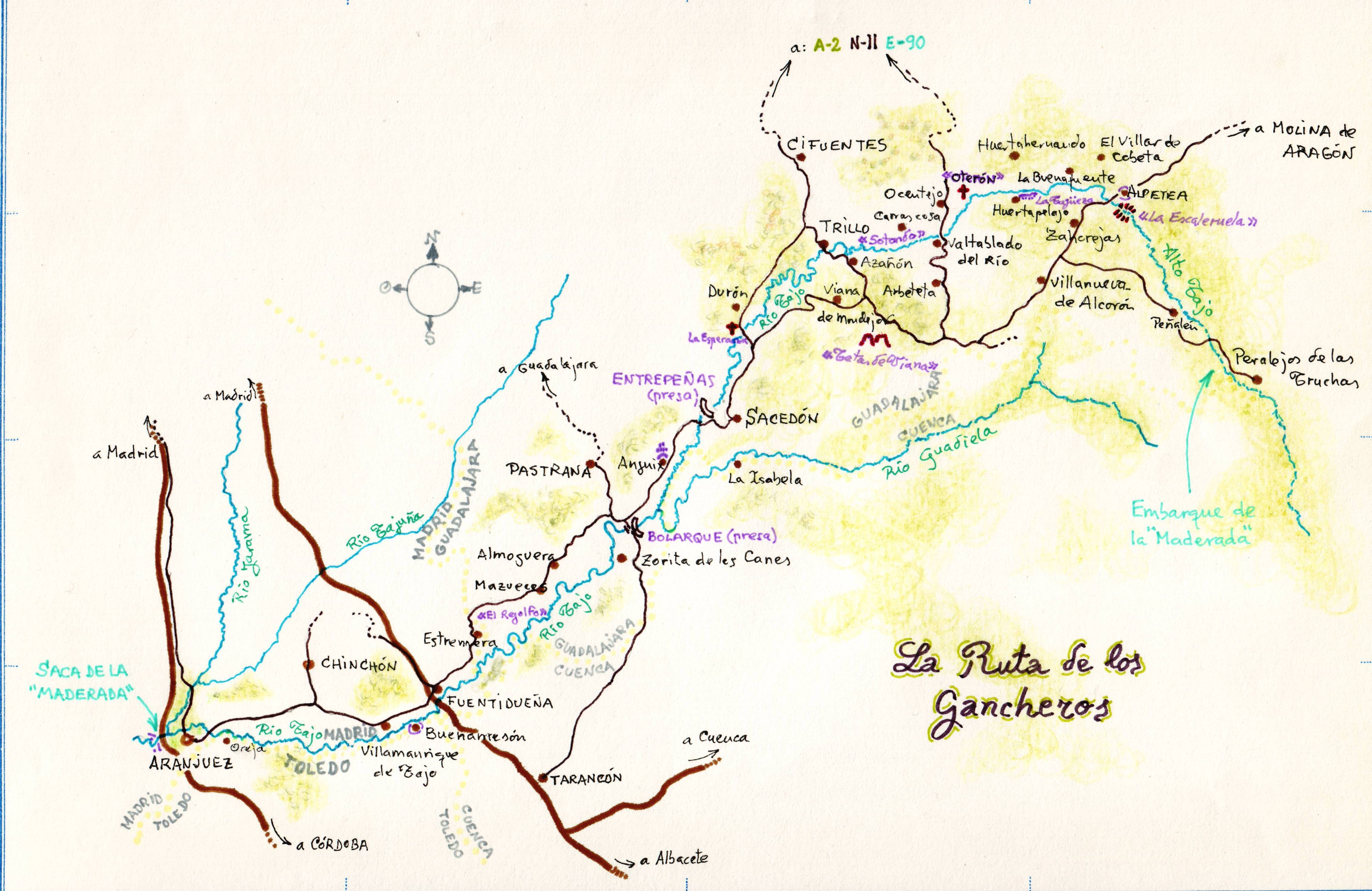 Route followed by the Tagus River with its maderadas gancheros. Illustrates the novel by José Luis Sampedro: "The river that leads". Drawn by hand by Milartino. "The river that leads us," novel by José Luis Sampedro, published in 1961, was made into a film in 1989.